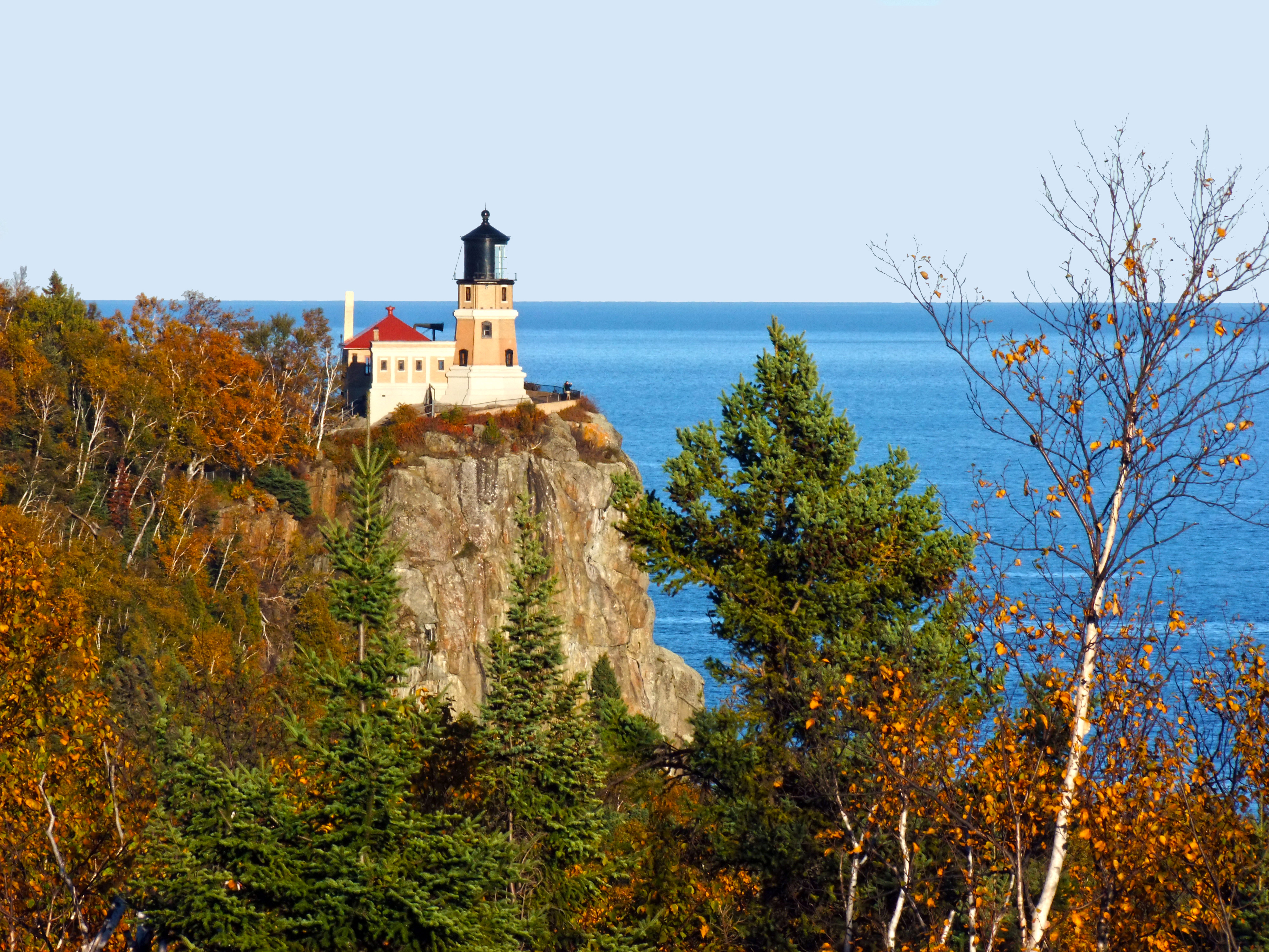 Split Rock Lighthouse — located along the North Shore of Lake Superior, near Two Harbors, Minnesota. Shipwrecks from a mighty 1905 November gale prompted this rugged landmark’s construction. Completed by the U.S. Lighthouse Service in 1910, Split Rock Light Station was soon one of Minnesota’s best known landmarks. Restored to its 1920s appearance, the lighthouse offers a glimpse of lighthouse life in this remote and spectacular setting.